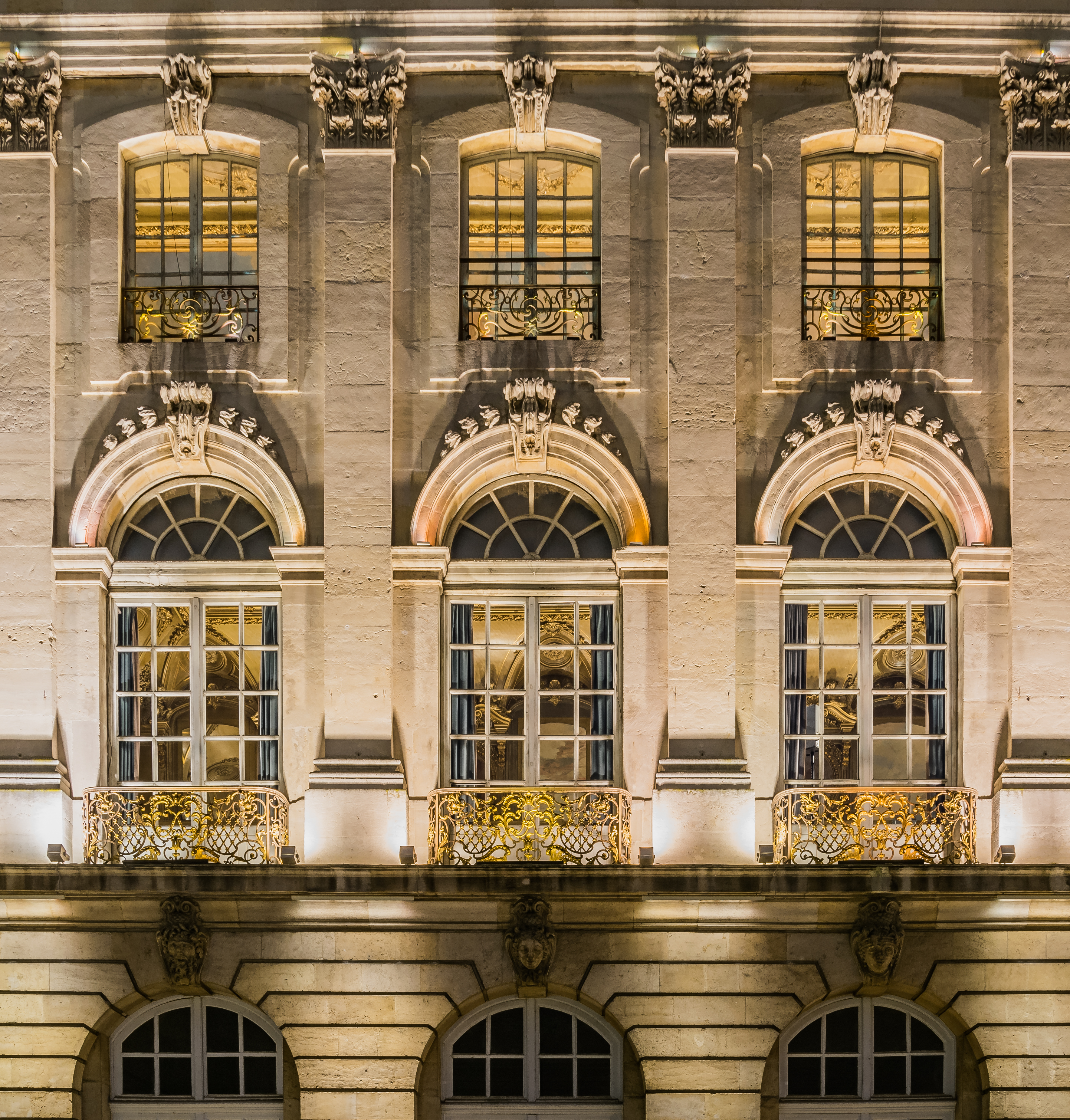 Windows of Pavillon Jacquet in Nancy, Meurthe-et-Moselle, France .